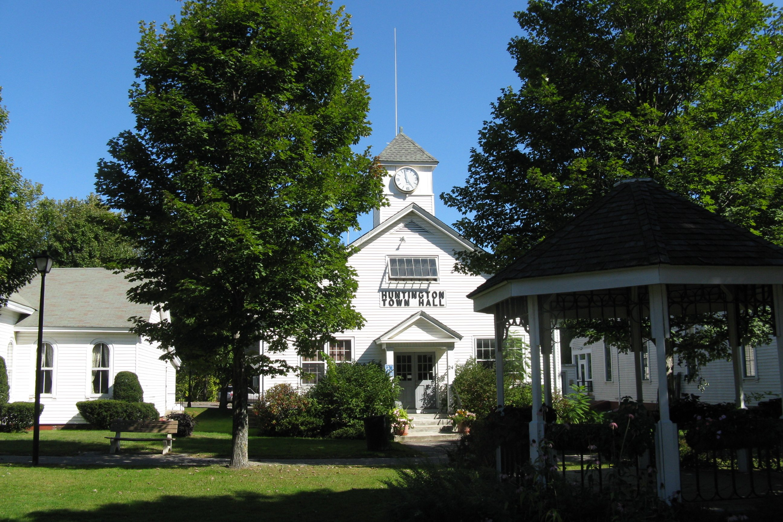 Huntington Town Hall, Huntington Massachusetts